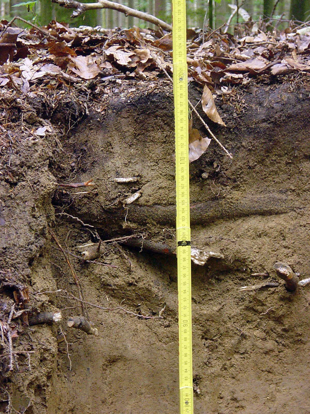 upper soil profile of a dystric cambisol